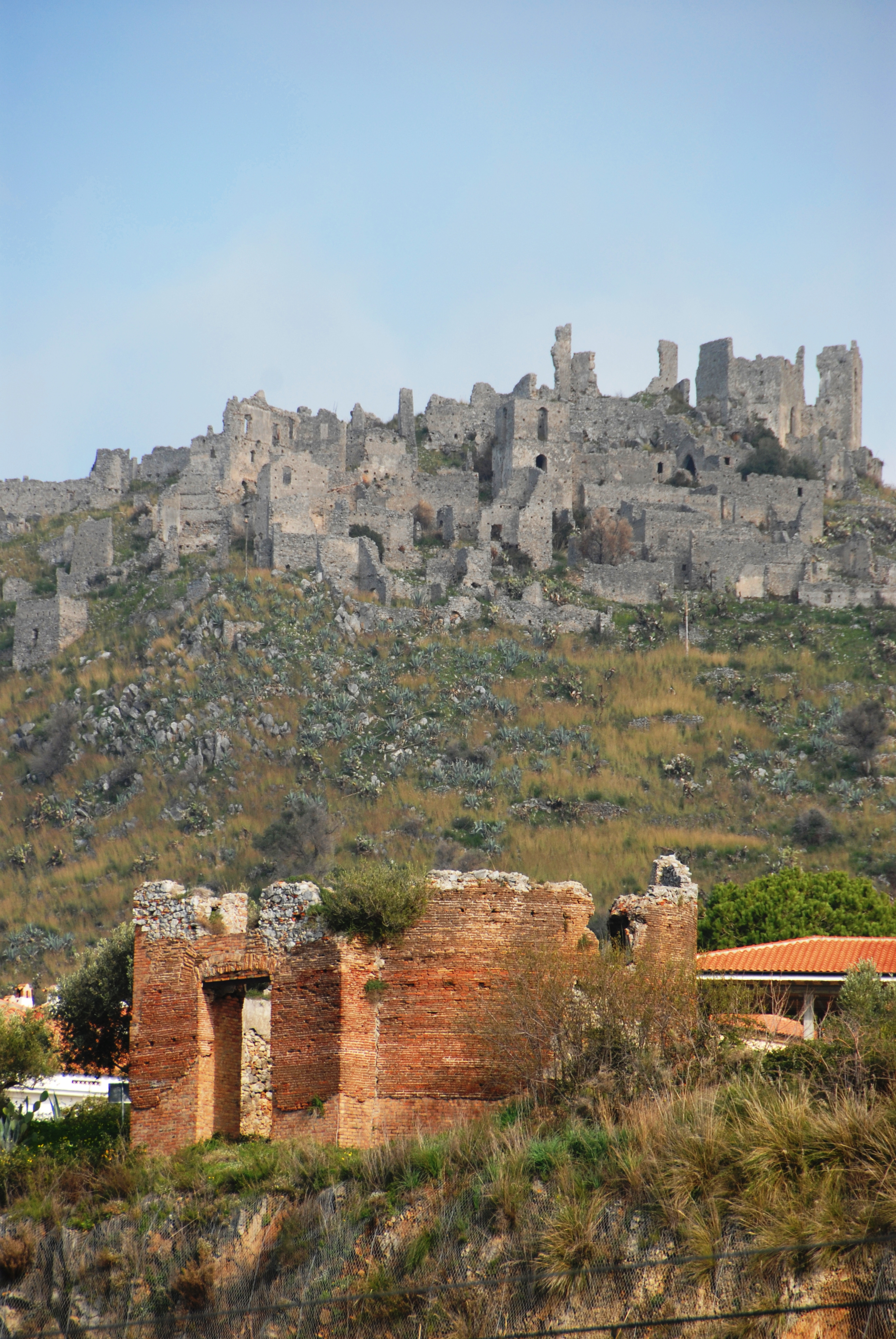 ruines of old town of Cirella and Roman pantheon. Diamante, Calabria, Italy.